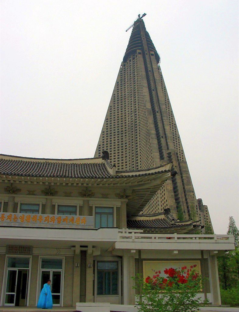 This is a photo of the Ryugyong Hotel in Pyongyang, North Korea. The hotel is one of the world's largest structures, however, it has been abandoned for 15 years, unfinished. The building in the foreground is a needlepoint factory. Photo taken by me, in May 2005, with a Canon PowerShot A85.